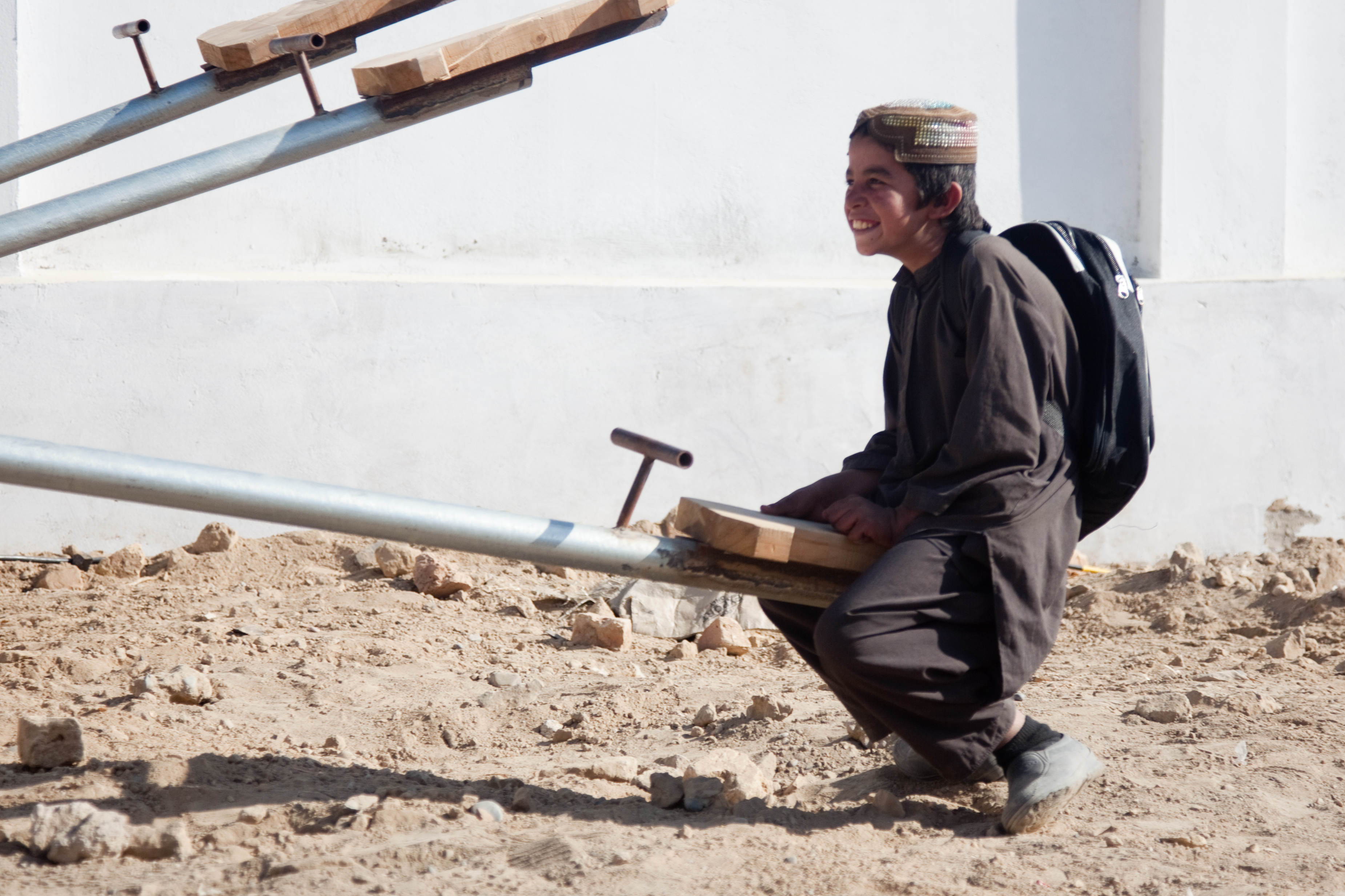 An Afghan boy plays on a teeter-totter in Ananzai village, Kandahar province, Afghanistan, Dec. 26, 2011. He was one of many children attending the Kolk school opening ceremony.